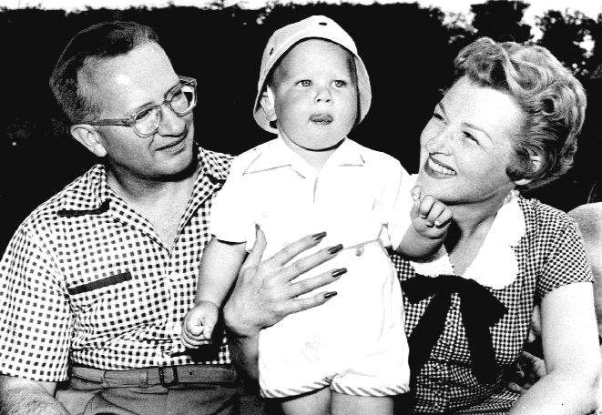 Photo of Jo Stafford, husband Paul Weston and son Tim Weston at a 1954 outdoor birthday party.